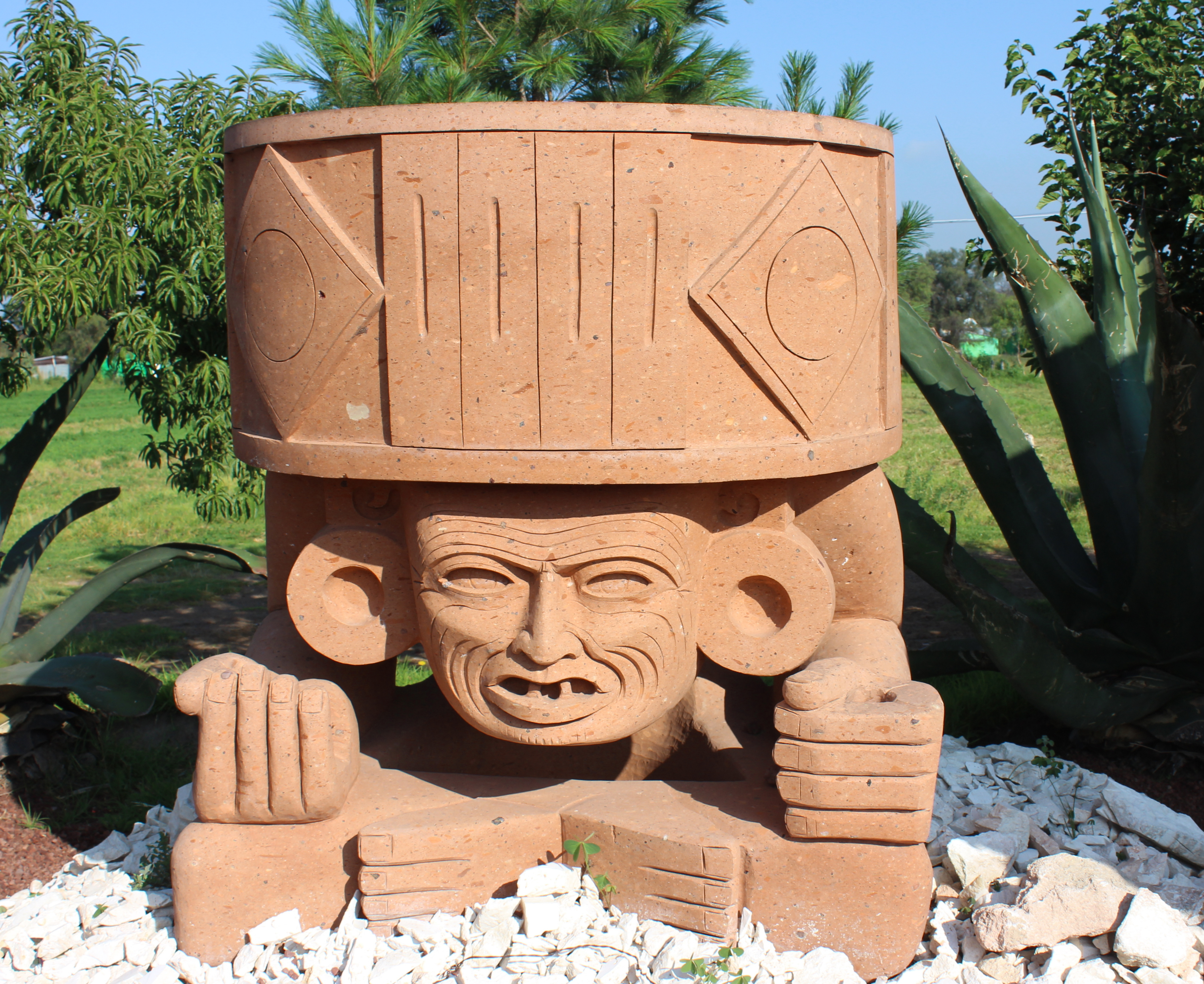 Huehueteotl, God of Fire at Teotihuacan.